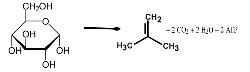 Isobutylene from glucose fermentation